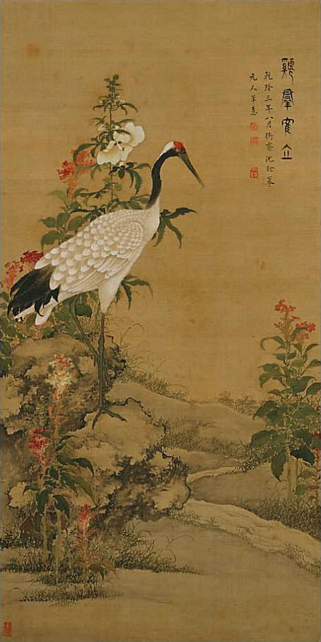 Crane by Shen Nanpin, Akita Museum of Modern Art, Yokote, Akita, Japan